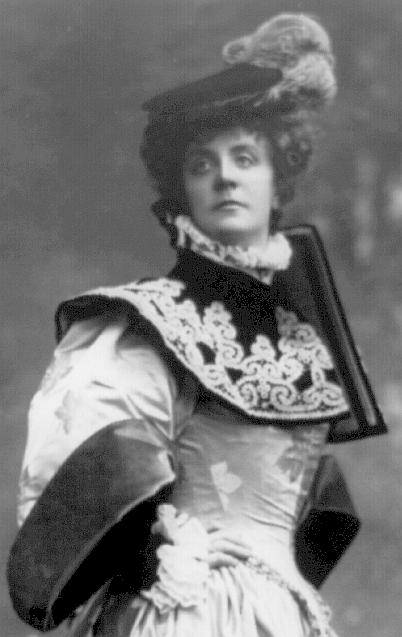 Irish-born American actress Ada Rehan (1859-1916)